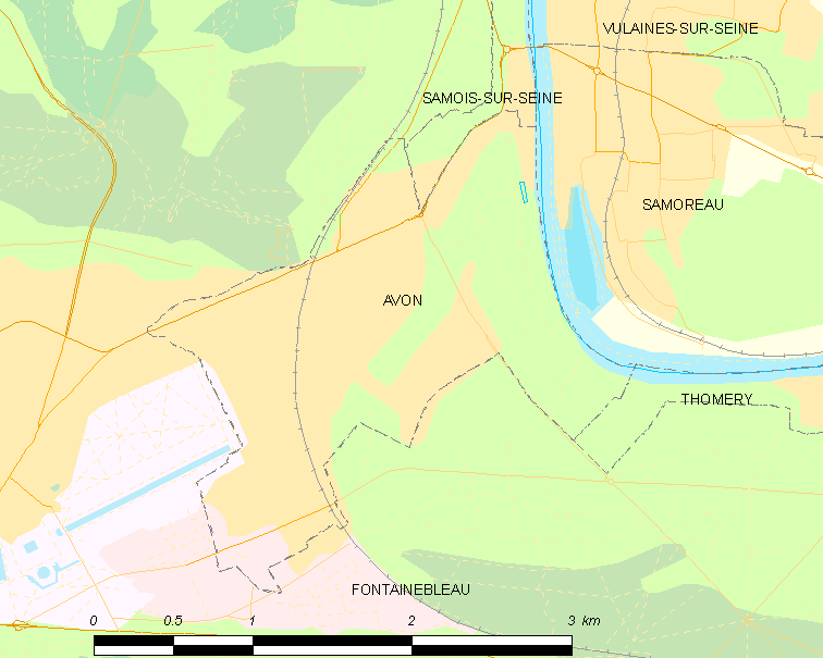 Map of French municipality Avon